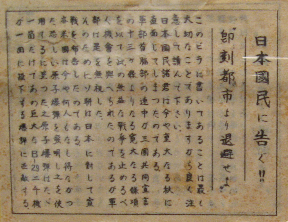 A leaflet dropped from a B-29 on Japan after the bombing of Hiroshima. Translation: Notice to the Japanese People! Evacuate the city immediately. What this leaflet contains is extremely important, so please read carefully. The Japanese people are facing an extremely important autumn. Your military leaders were presented with thirteen articles for surrender by our three-country alliance to put an end to this unprofitable war. This proposal was ignored by your army leaders. Because of this the Soviet Republic intervened. In addition, the United States has developed an atom bomb, which had not been done by any nation before. It has been determined to employ this frightening bomb. One atom bomb has the destructive power of 2000 B-29s. This frightening fact should be understood by you by observing what kind of situation was caused when only one was dropped on Hiroshima.